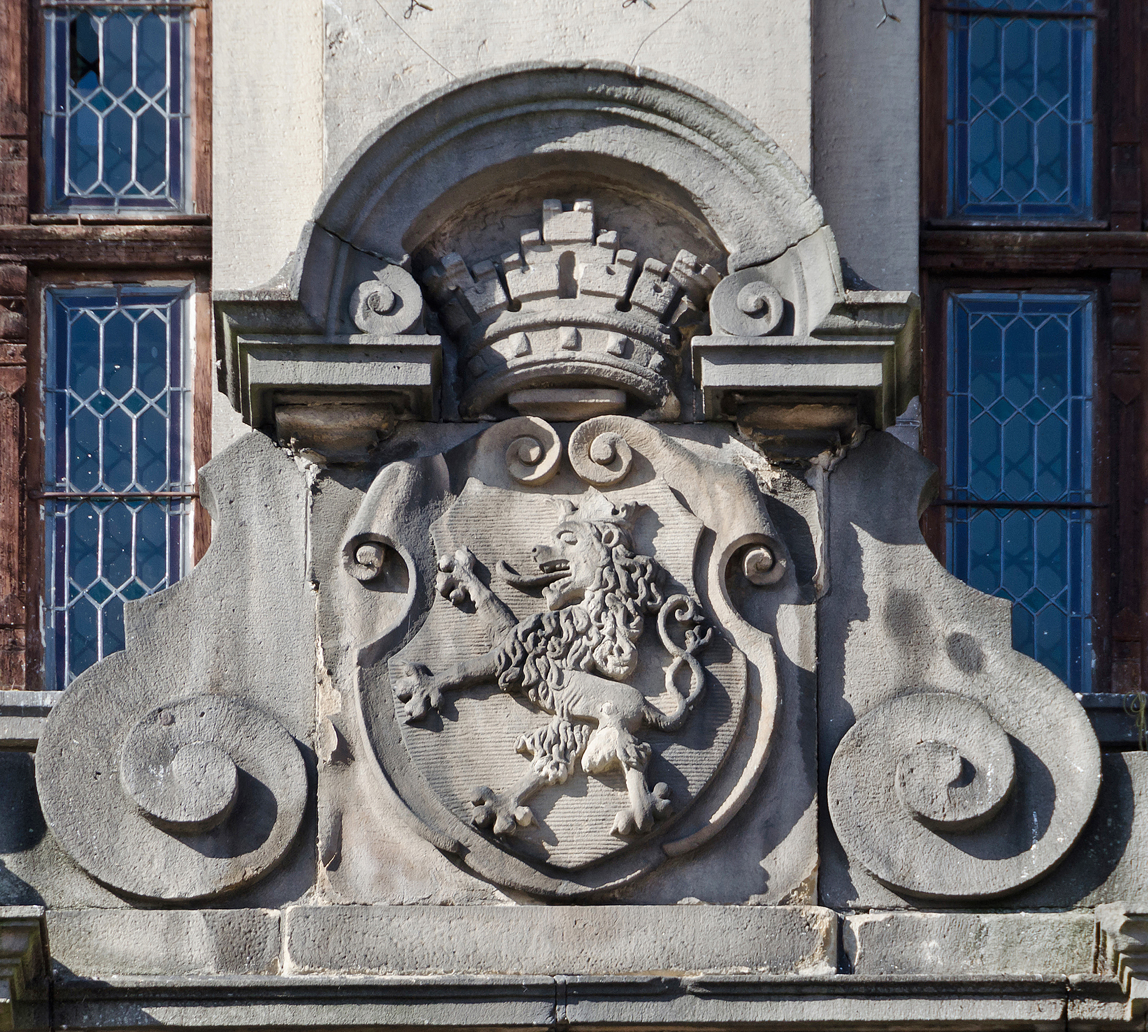 Town hall in Kłodzko